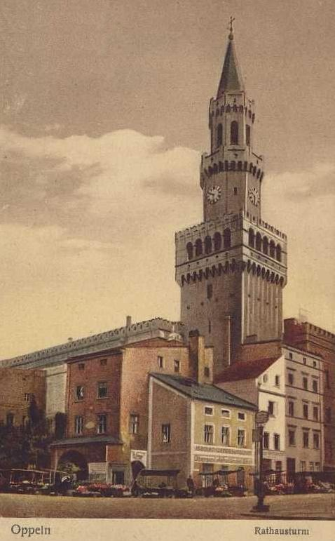 Opole's town hall with four old houses attached to the tower. Picture made before the demolishion of the houses in 1934.